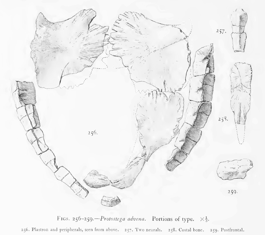 Sketch of the holotype of Chelosphargis advena